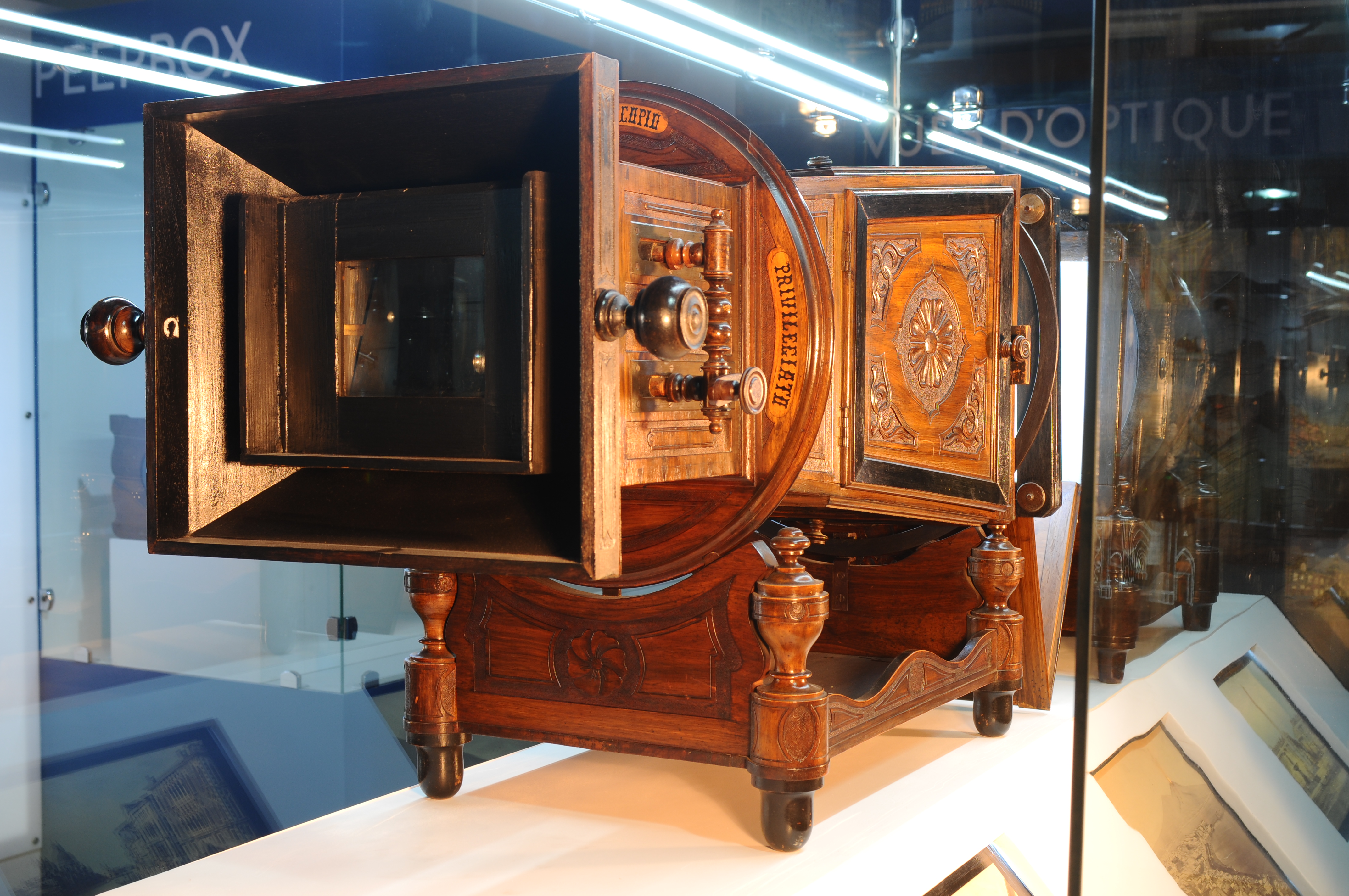 Italian Megalethoscope from the middle of the 19th century displayed at the Dubai Moving Image Museum.